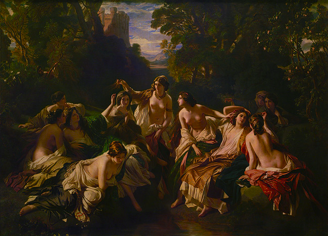 Florinda, 1853. By Franz Xaver Winterhalter (German, 1805–1873). Oil on canvas.